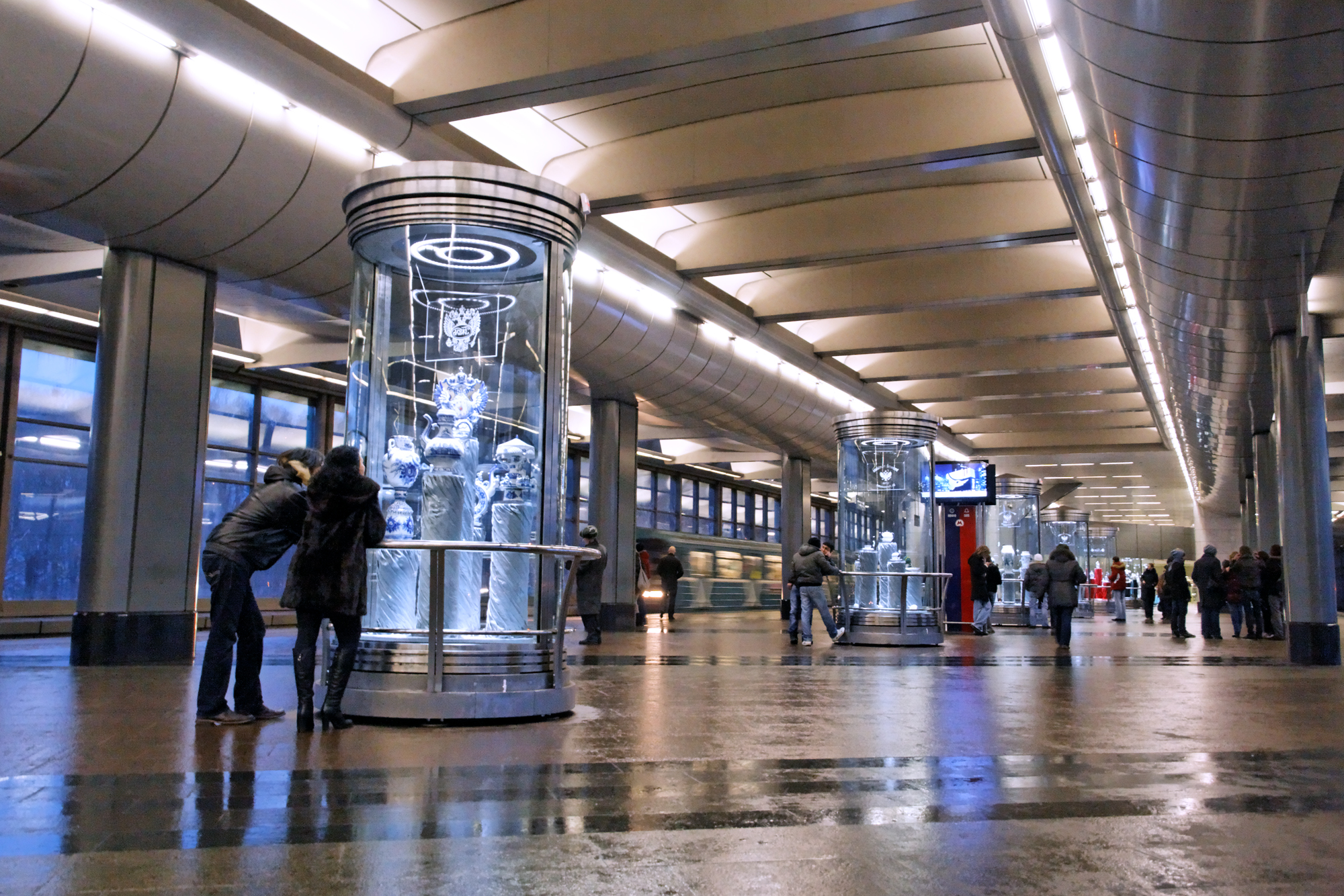 Train arrives from the "University" station.